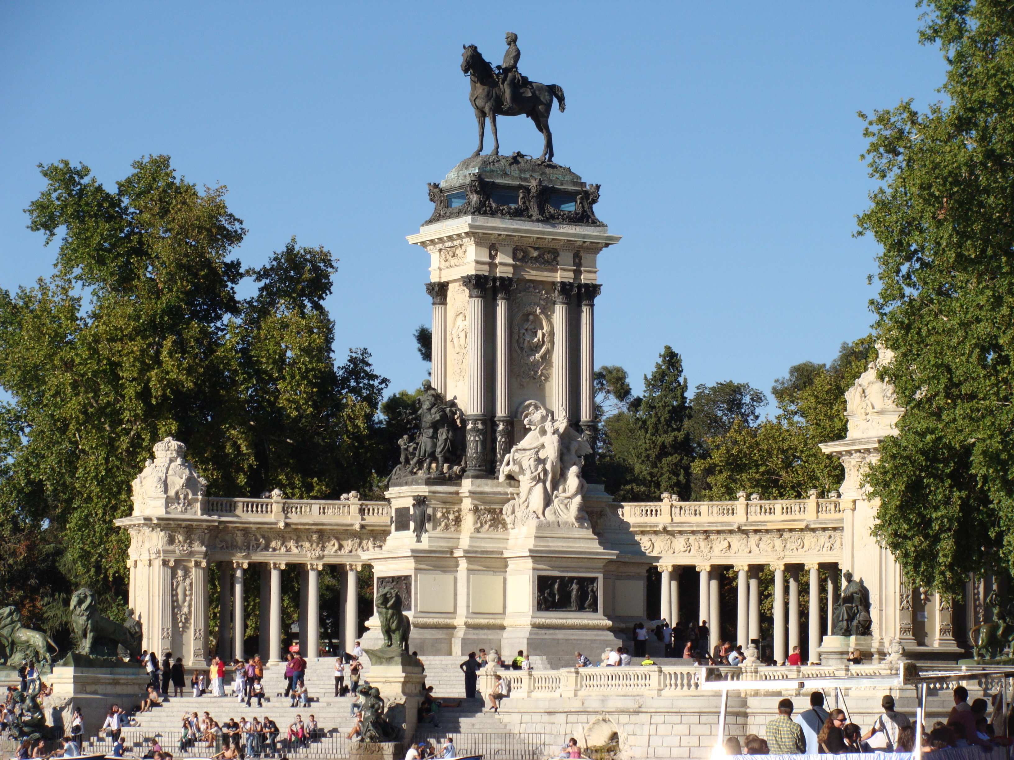 Monument to Alfonso XII of Spain, in Parque del Buen Retiro, in Madrid